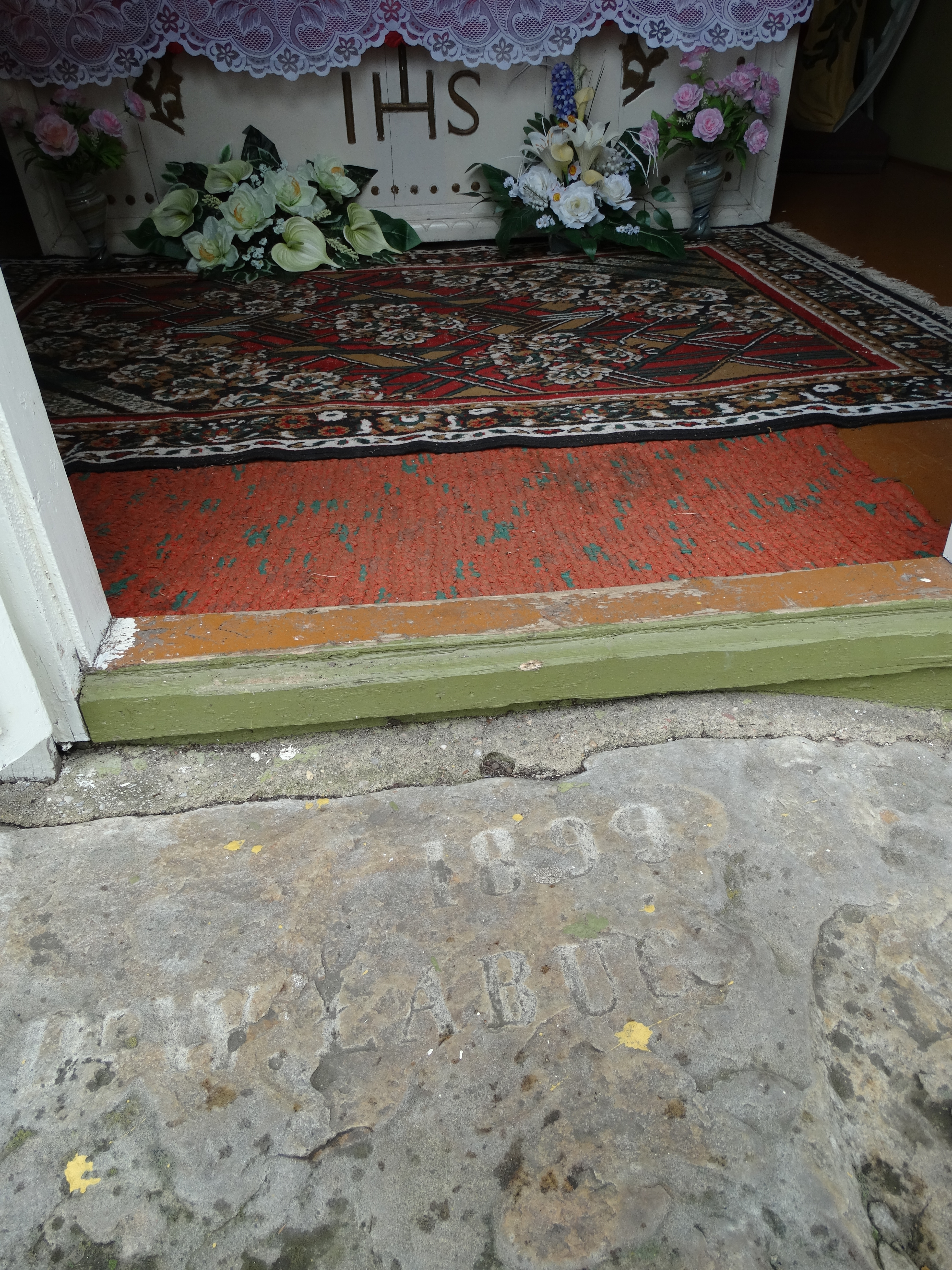 Threshold with a date in Skaruliai Chapel, Jonava district, Lithuania